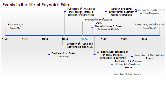 Timeline of the events in Price's Life